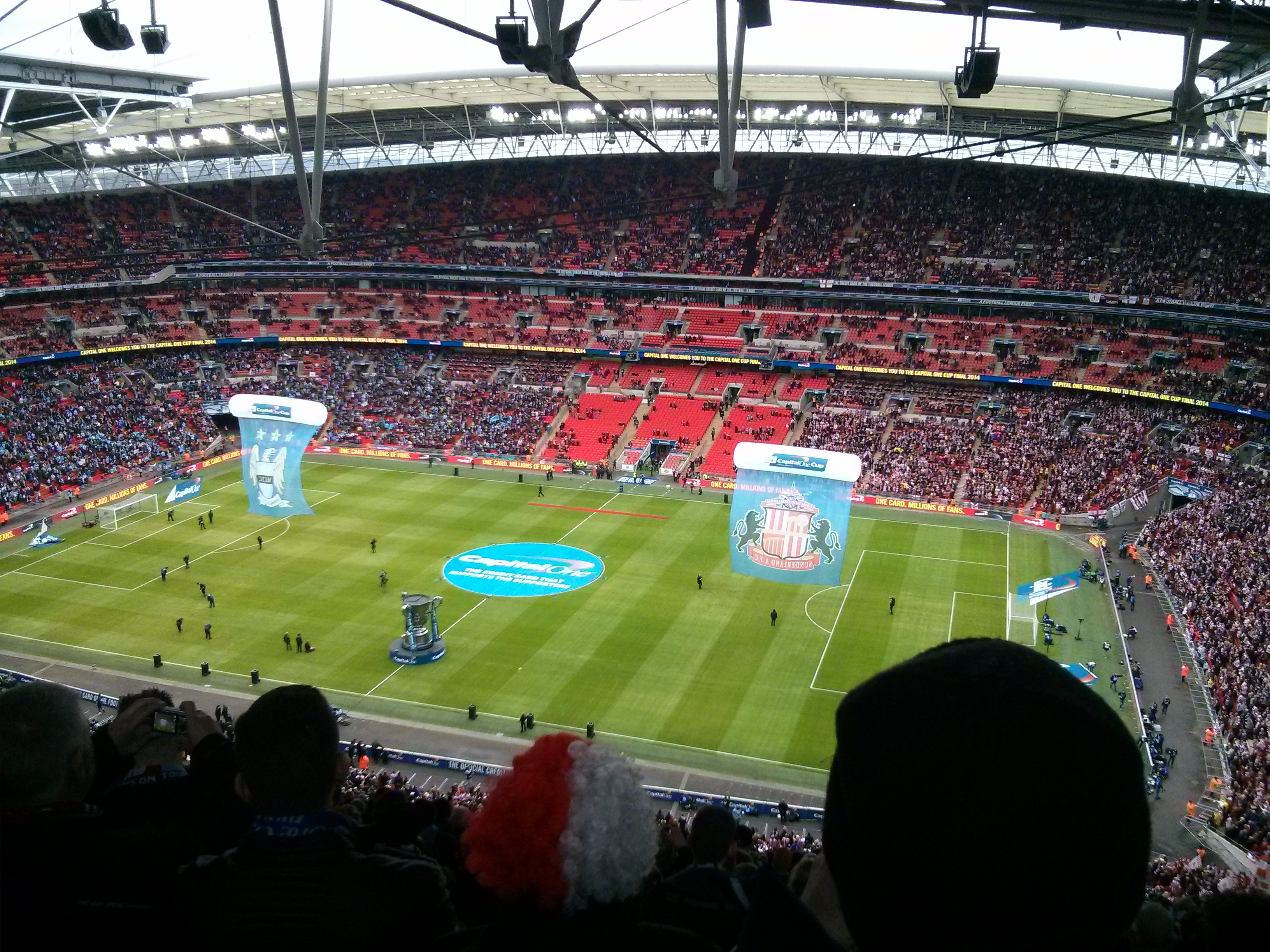 Before the 2014 Football League Cup Final